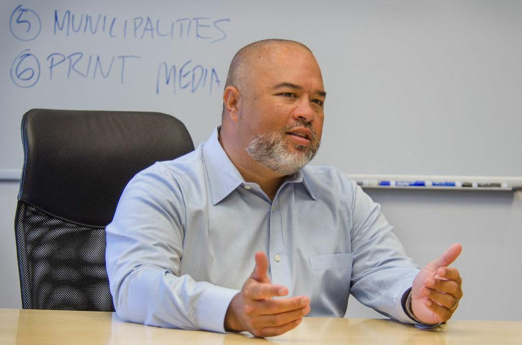 Shawn McCollough headshot taken at the American Board offices in Washington, DC.